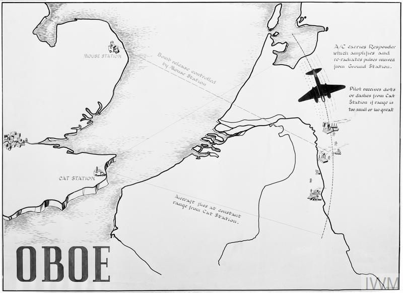 An illustration of the Oboe navigation system. IWM catalogue number E(MOS) 1439. Oboe was a radio navigation system used by RAF Bomber Command during World War II, especially during the Battle of the Rhur. Transponders on an Oboe-equipped aircraft re-broadcast signals being sent to them from two stations in the UK, code-named Cat and Mouse. The signals were received back at the station and the distance to the aircraft measured on large CRTs, similar in fashion to traditional radar but using the stronger return signals of the transponder. Measuring distance can be accomplished quickly, but turning two such measurements into a single location in space can be timing consuming. To address this, Oboe measured the distance from the Cat station to the target, and then directed the aircraft to turn left or right as needed to stay at that range. The same distance from Mouse was also measured, and when the aircraft was seen approaching that range the Mouse operator would tell the pilot to drop the bombs.